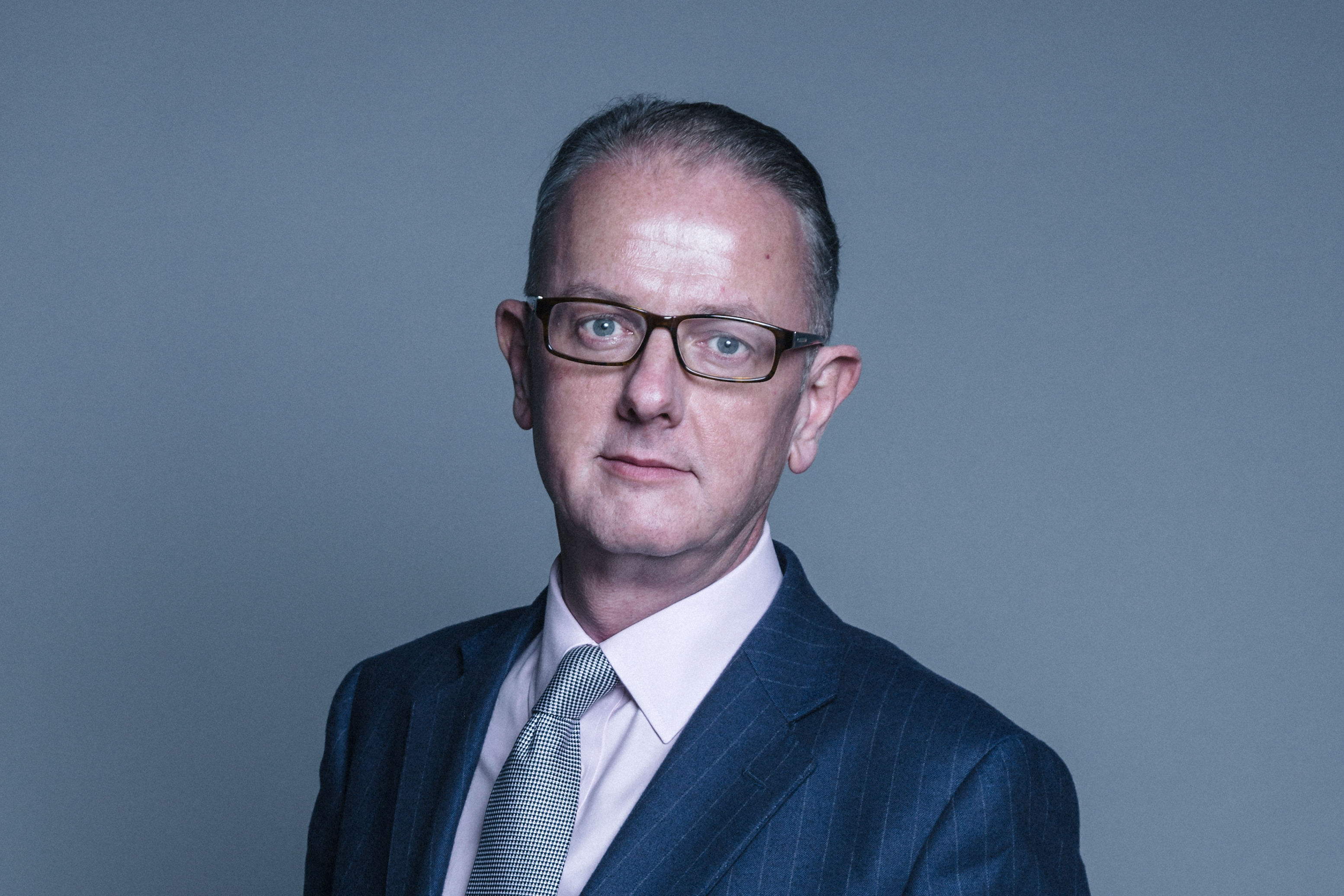 Official portrait of Lord Smith of Hindhead